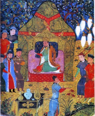 Temujin proclaimed Genghis with his sons.